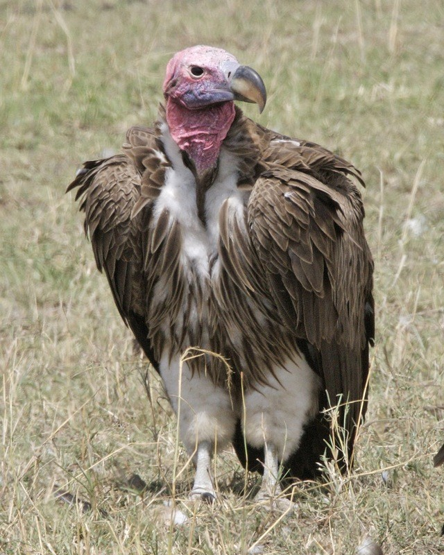 Lappet-faced Vulture Torgos tracheliotus Swahili: Tumbusi Ngusha Masai Mara, Kenya 29th. August 2008 690V1423